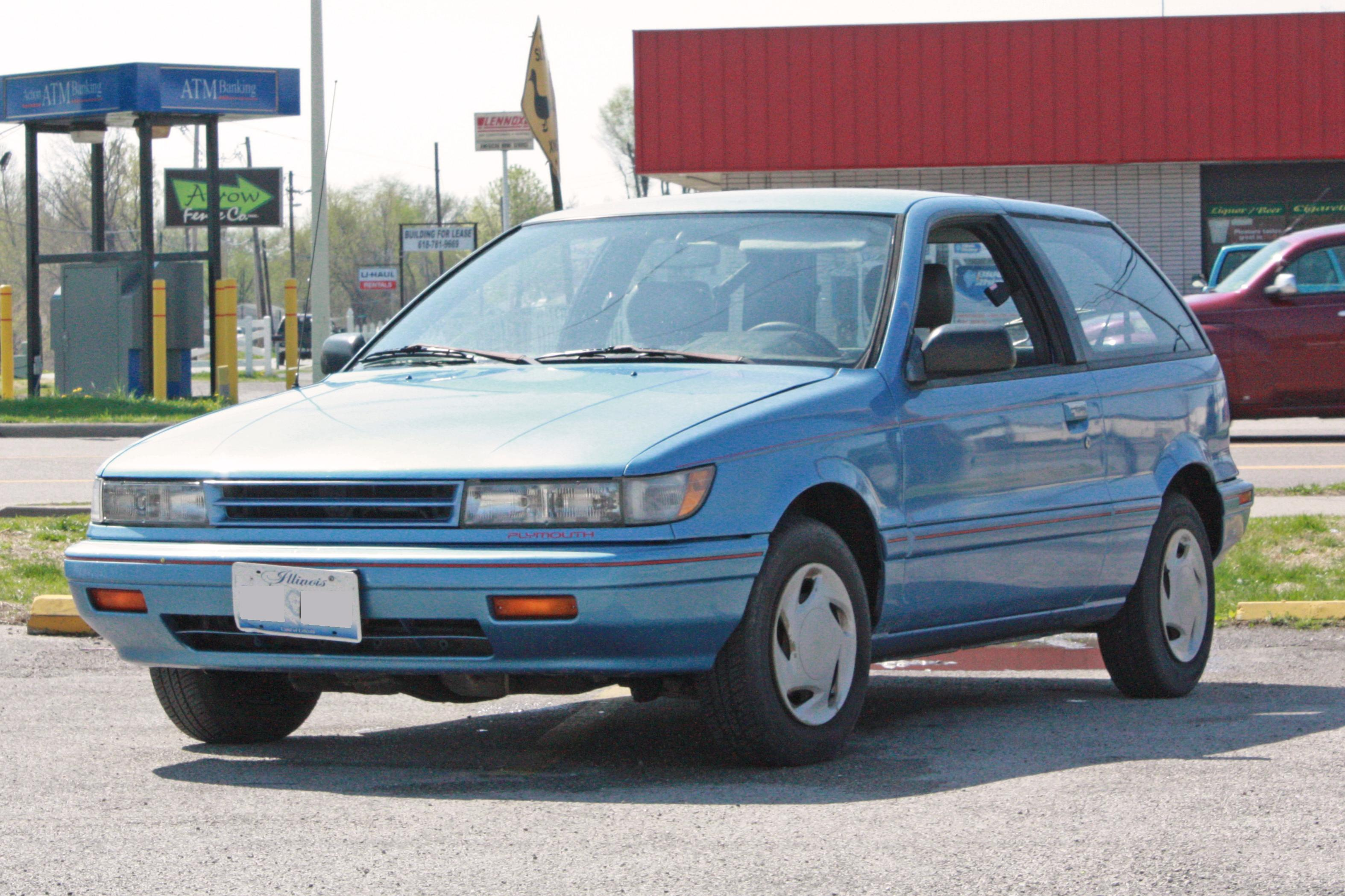 Front view of the Plymouth Colt